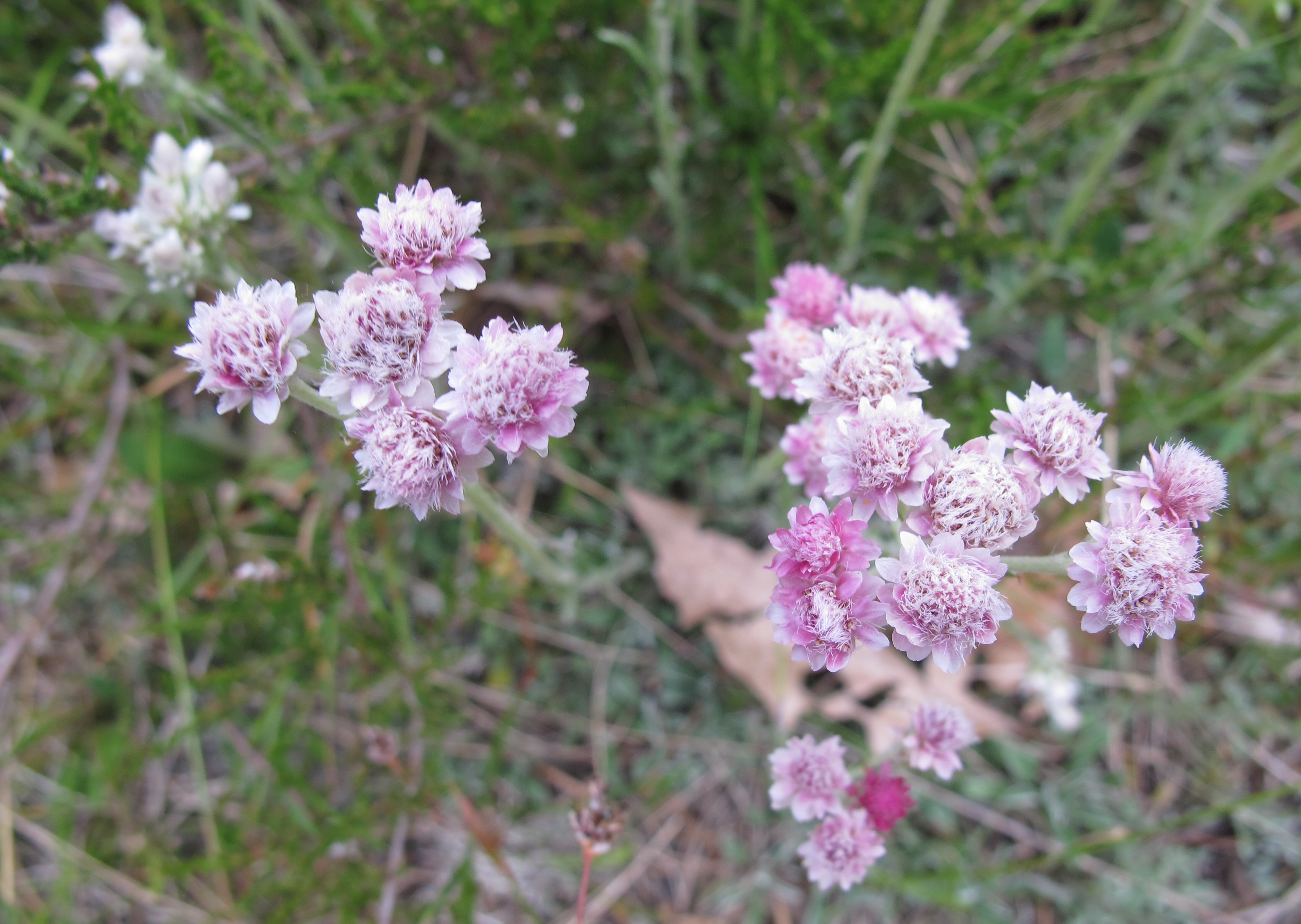 Antennaria dioica in natural monument Na horách near Křešín (near Jince) in Příbram Dístrict